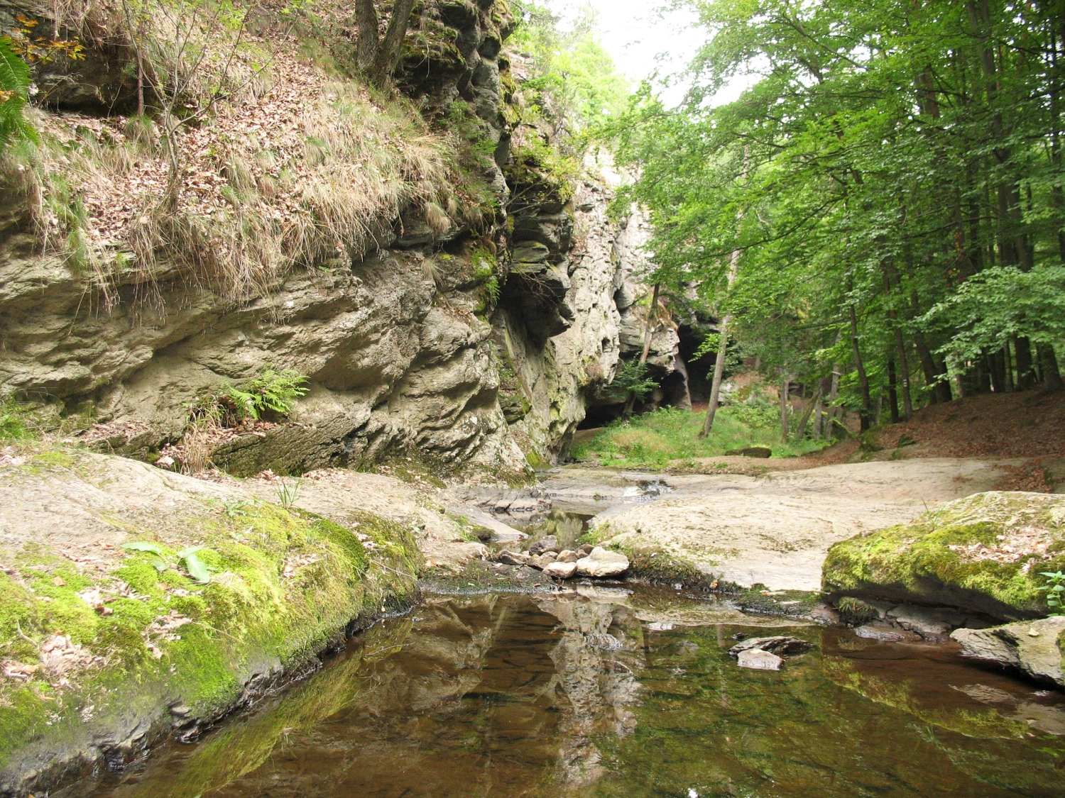 Natural monument Židova strouha in České Budějovice District and Tábor District, Czech Republic